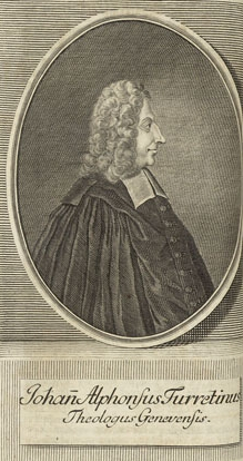 Jean Alphonse Turretin (1671-1737)